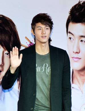 Lee Ki-woo at Flower Boy Ramyun Shop premiere, in October 2011